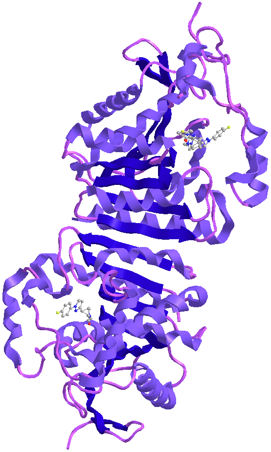 Human monoacylglycerol lipase bound to a covalent inhibitor (3.1.1.23).